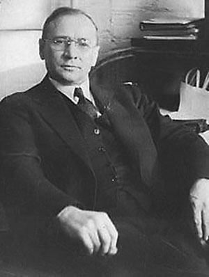 Vladimir Kozmich Zworykin